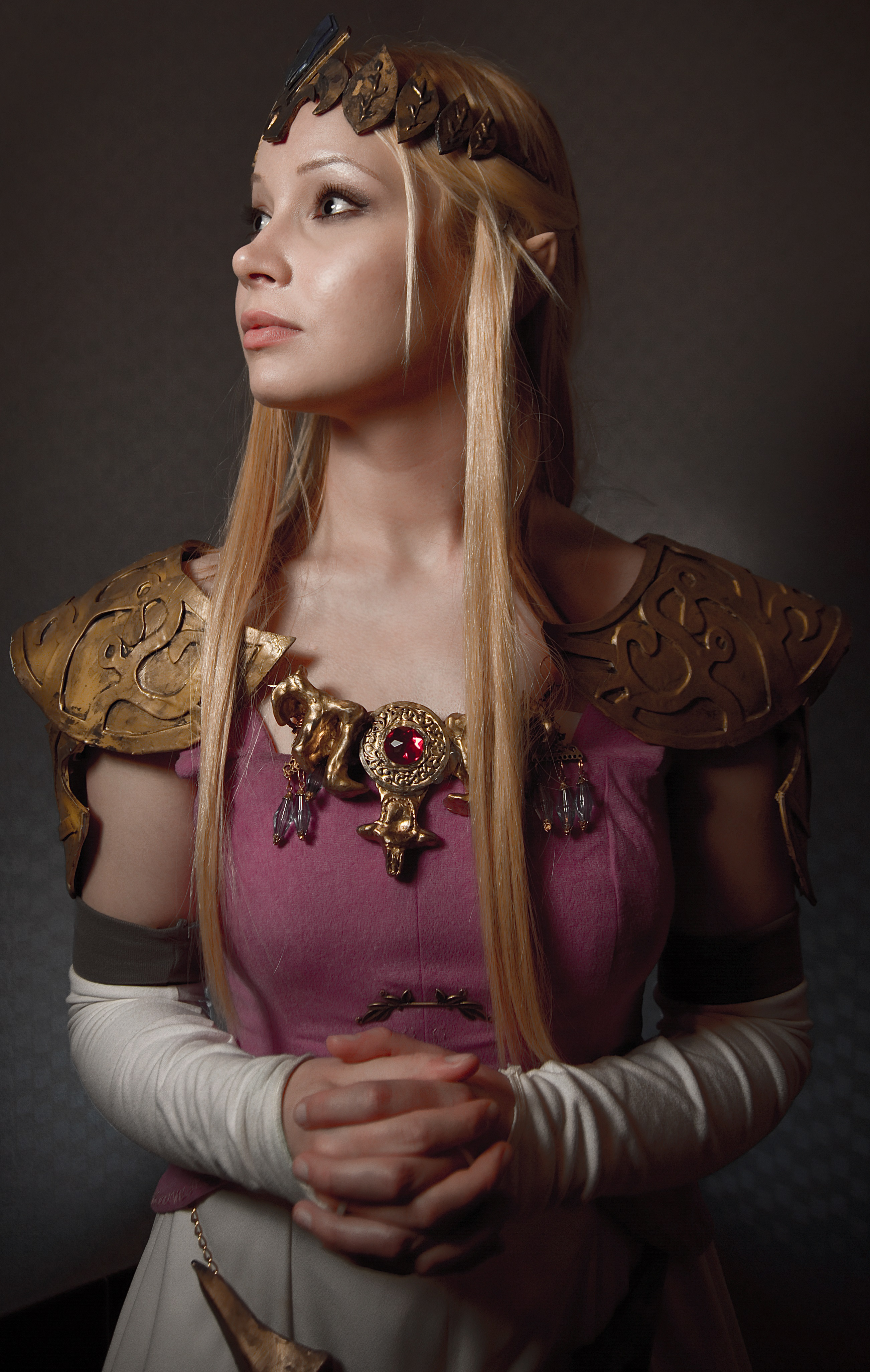 The following is the author's description of the photograph quoted directly from the photograph's Flickr page."This was I think the best of the lot. It breaks my heart that I had half my gear, a crummy location and only 5 minutes with her. This turned out so nice.7D with a Tamron 17-50, Main light 550EX In my homemade beauty dish seen here . backlight 420EX on floor behind subject. "